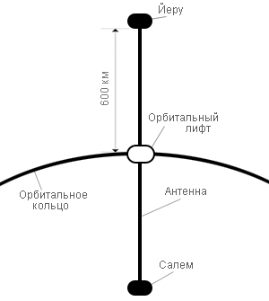 Battle Angel manga. A self-drawn scheme of Tiphares, Ketheres and Orbital Ring (in Russian).